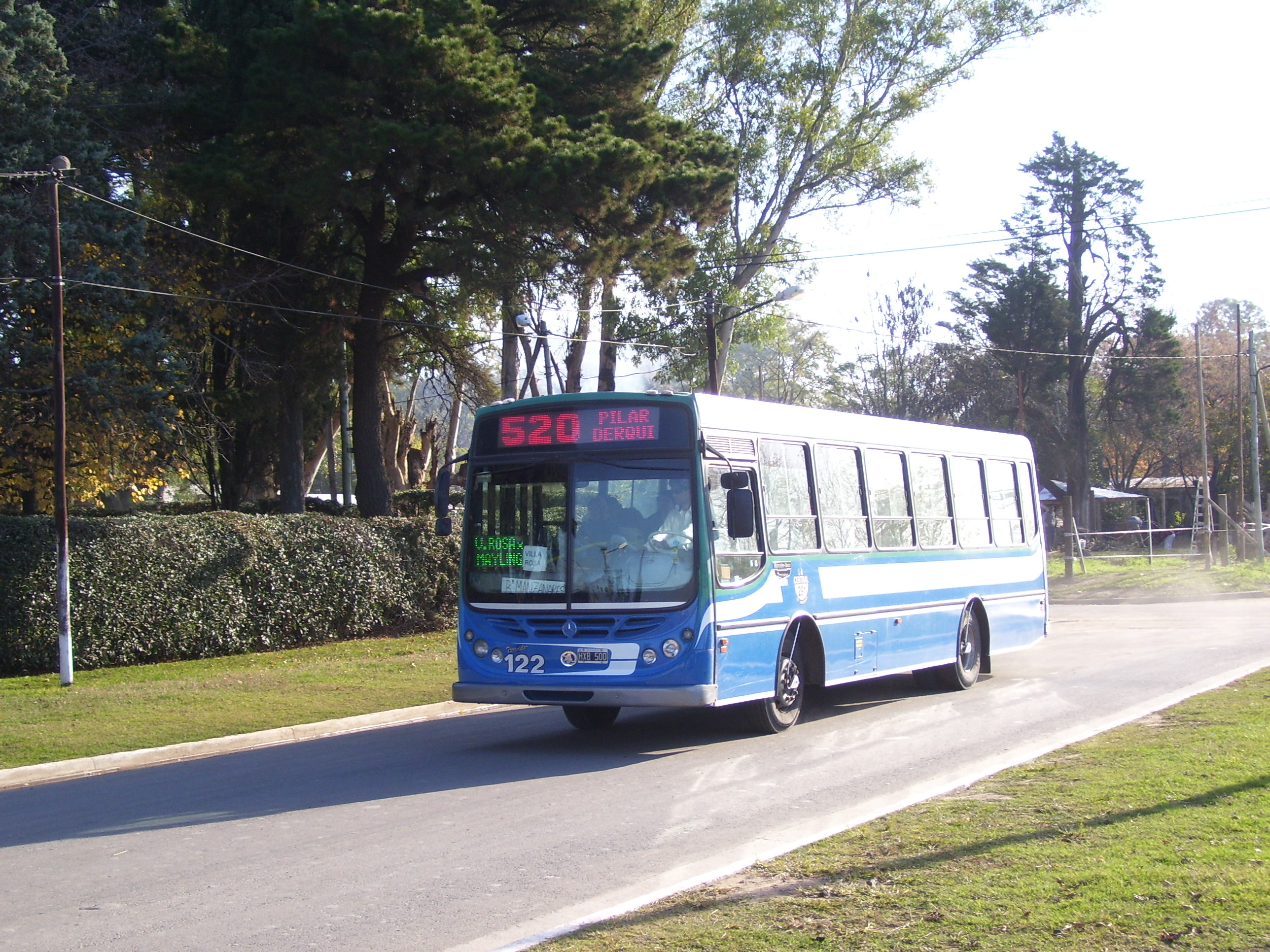 Bus 520 on Villa Rosa